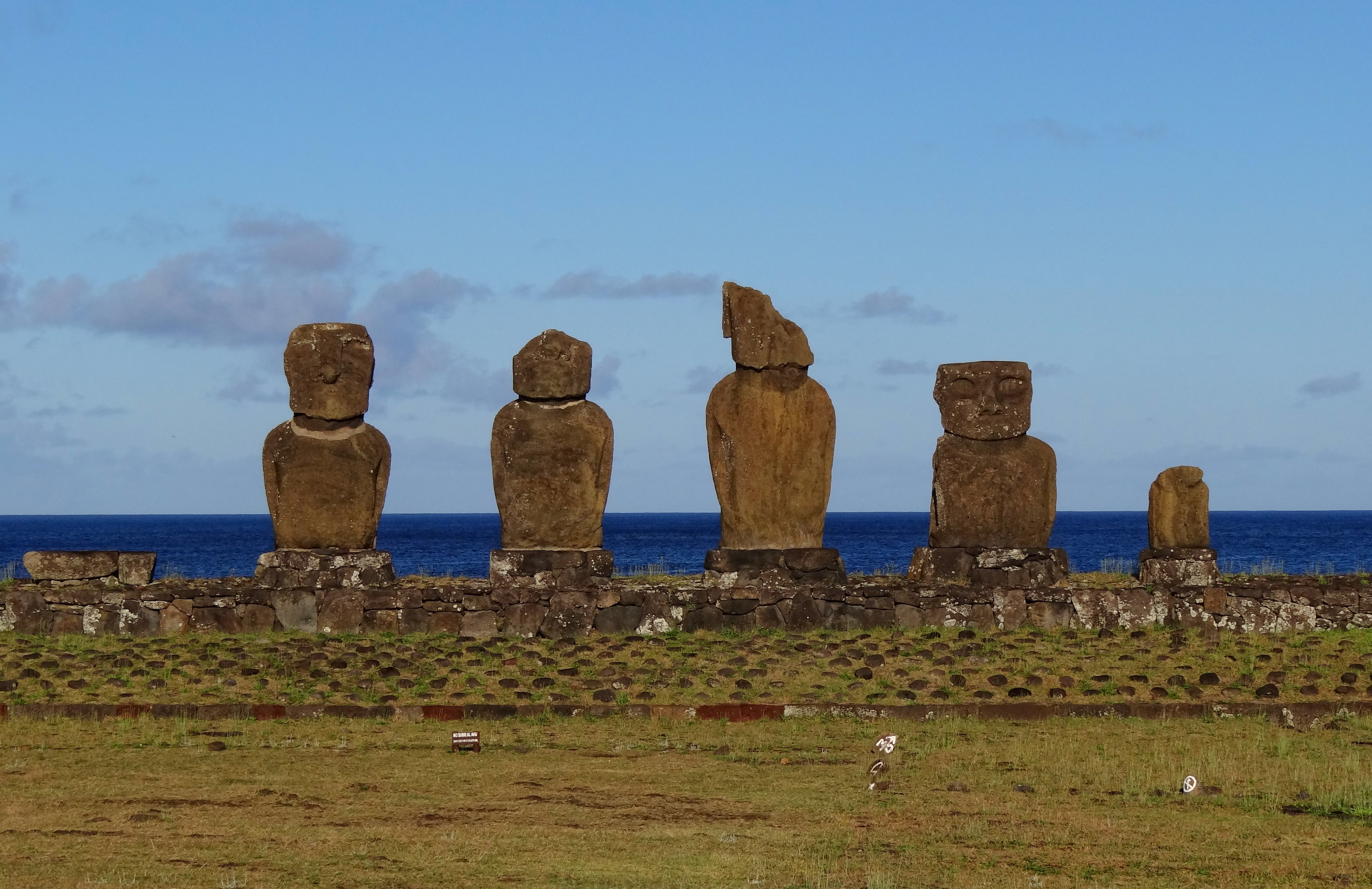 The Ahu Tahai used to have six moai on it, but today only five and a half remain of them.